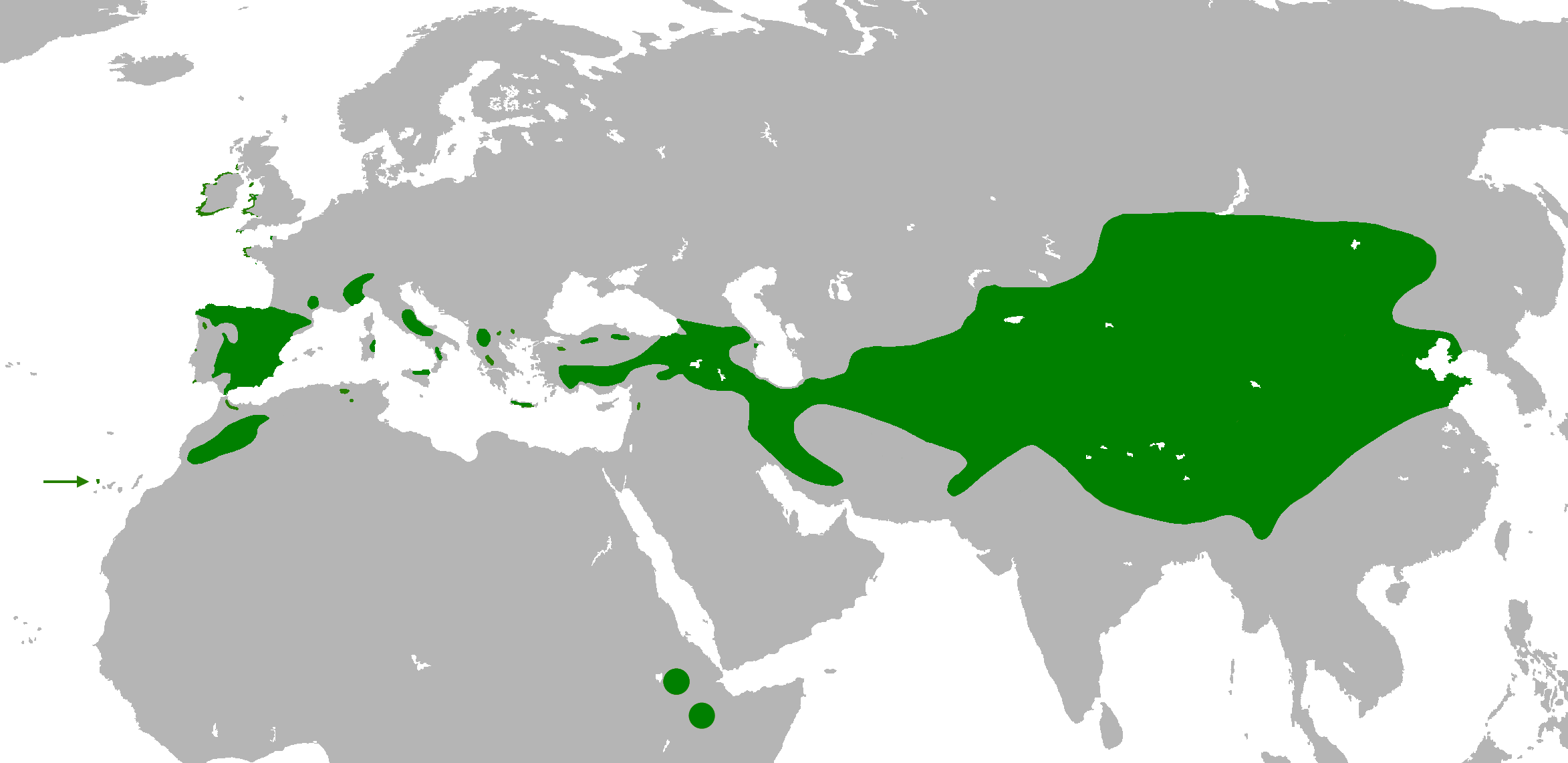 Red-billed Chough Pyrrhocorax pyrrhocorax distribution map References: Balmer, D., et al. (2013). Bird Atlas 2007-11. BTO. del Hoyo et al., eds. (1992). Handbook of the Birds of the World 14: 615. Lynx Edicions. MacKinnon, J. & Phillipps, K. (2000). A Field Guide to the Birds of China. Oxford. Snow, D. W., & Perrins, C. M. (1998). The Birds of the Western Palearctic (concise ed.) 2: 1466. Oxford.